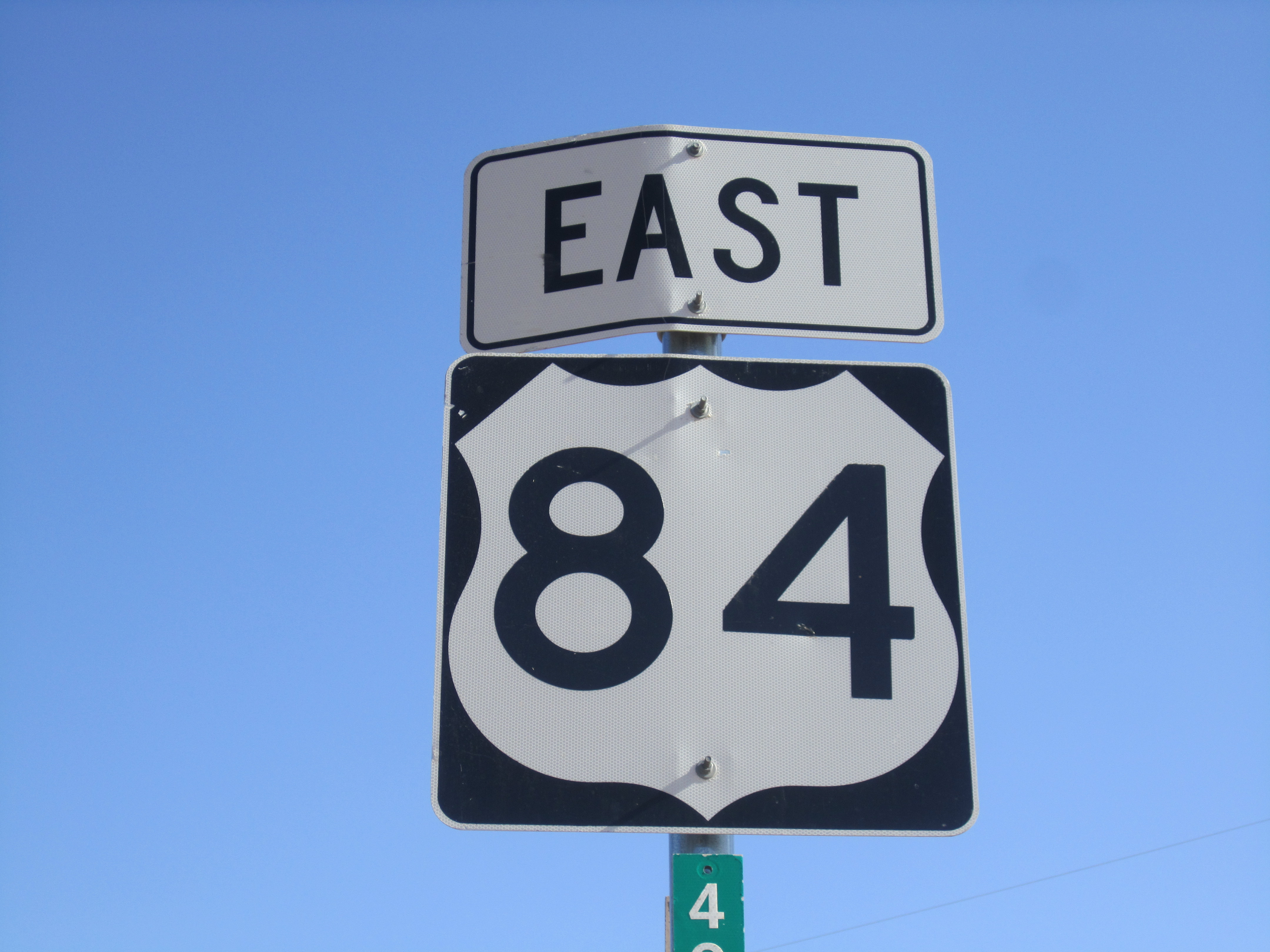 I took picture in Scurry County, TX, with Canon camera.